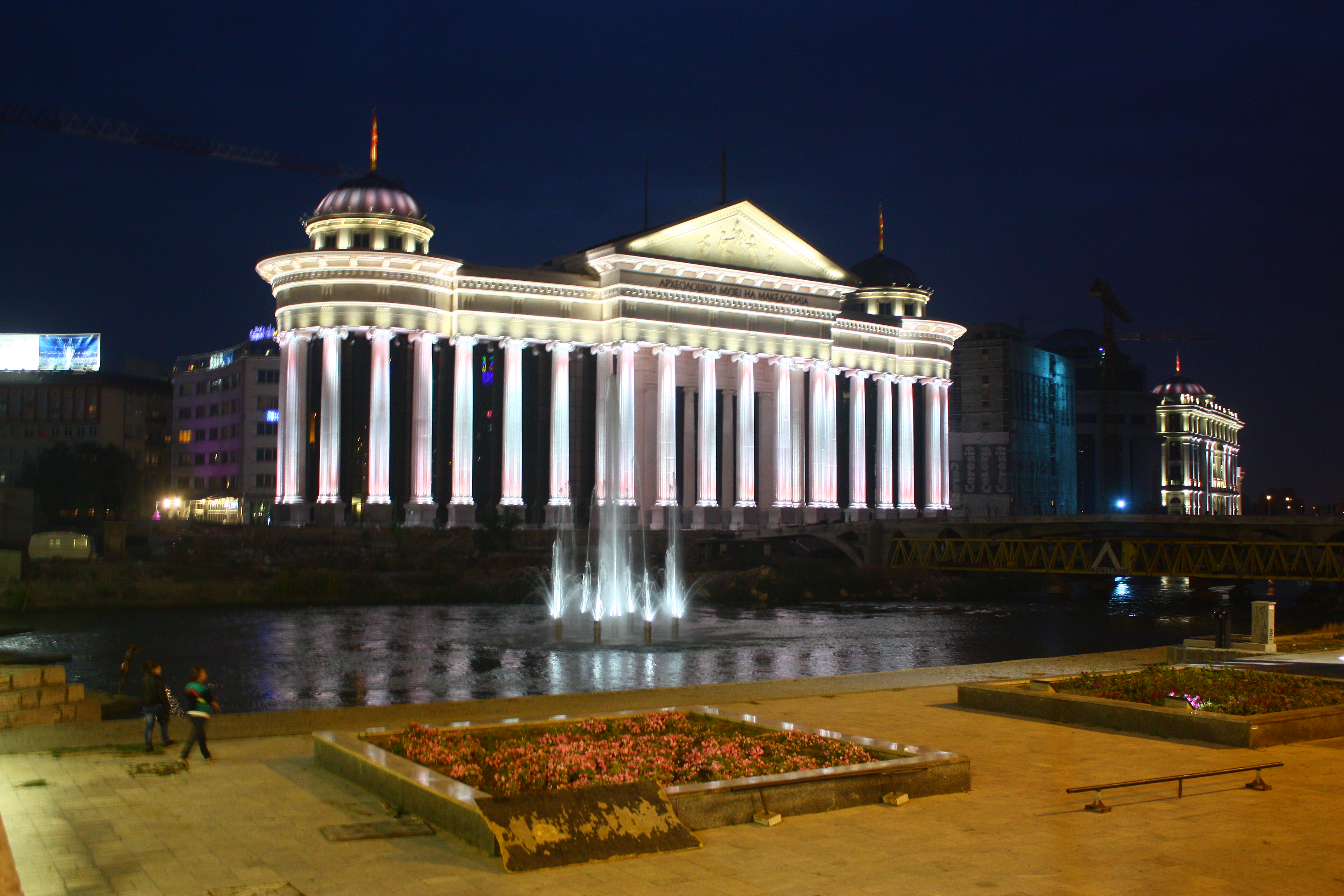 Archeological Museum of Macedonia in Skopje This image is uploaded as part of the picture contest Wiki Loves Cultural Heritage in Macedonia 2013. English | македонски | +/−